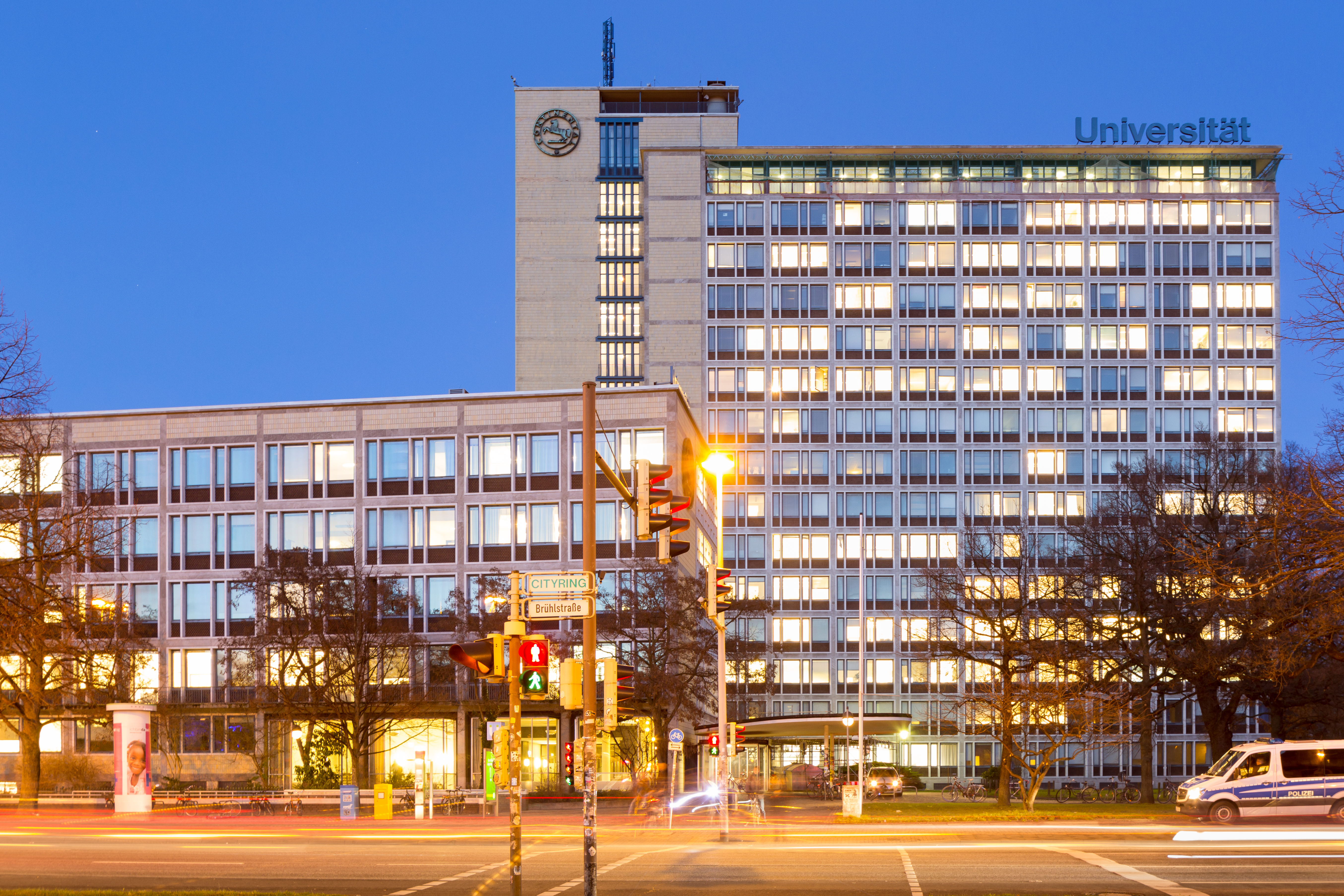 Office building of Leibniz Universitaet Hannover located at Koenigsworther Platz square (Conti-Campus) in Mitte quarter of Hannover, Germany.